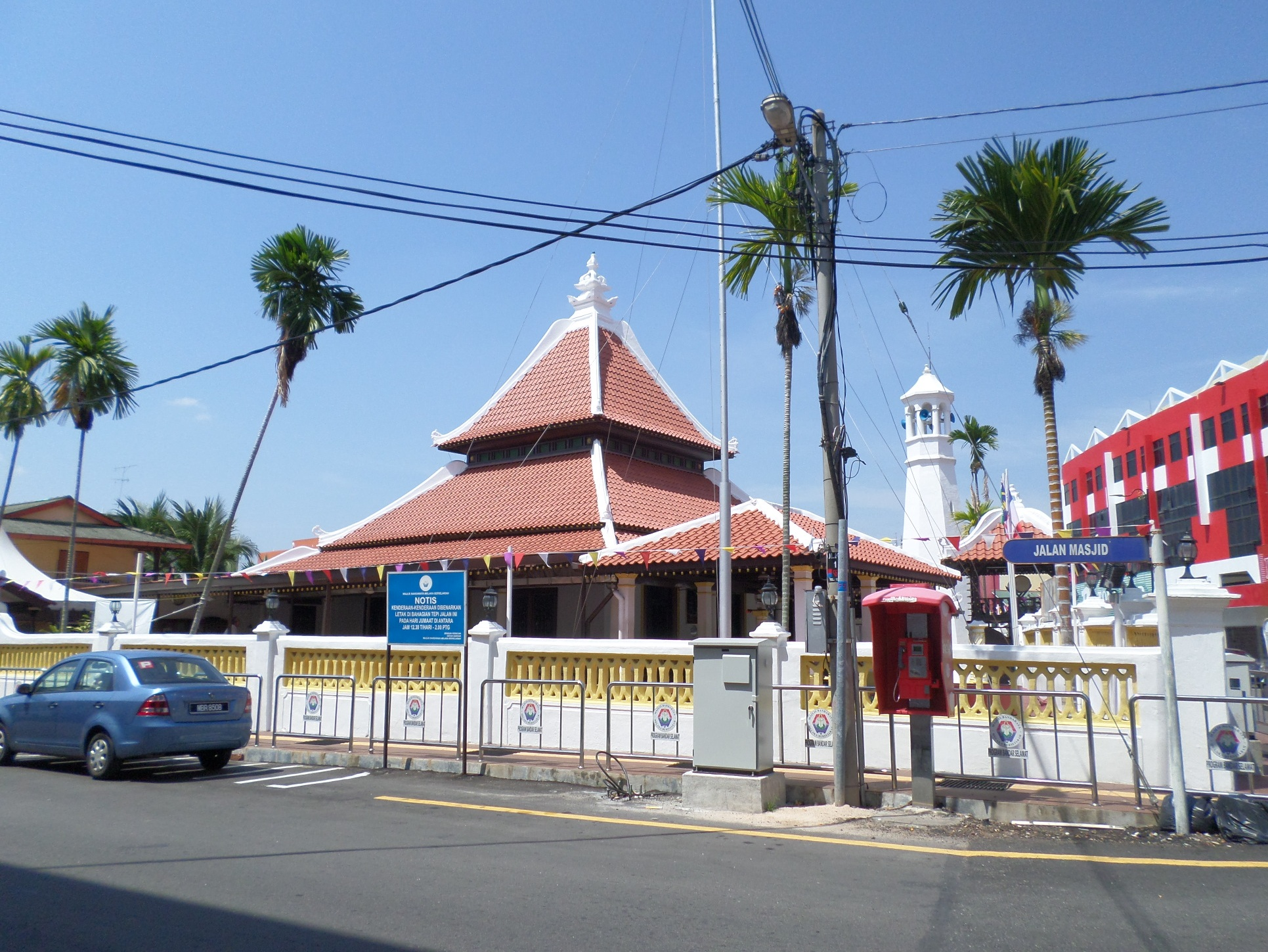 Kampung Hulu Mosque, Melaka City, Central Melaka, Melaka, MalaysiaBahasa Melayu: Masjid Kampung Hulu, Bandaraya Melaka, Melaka Tengah, Melaka, Malaysia